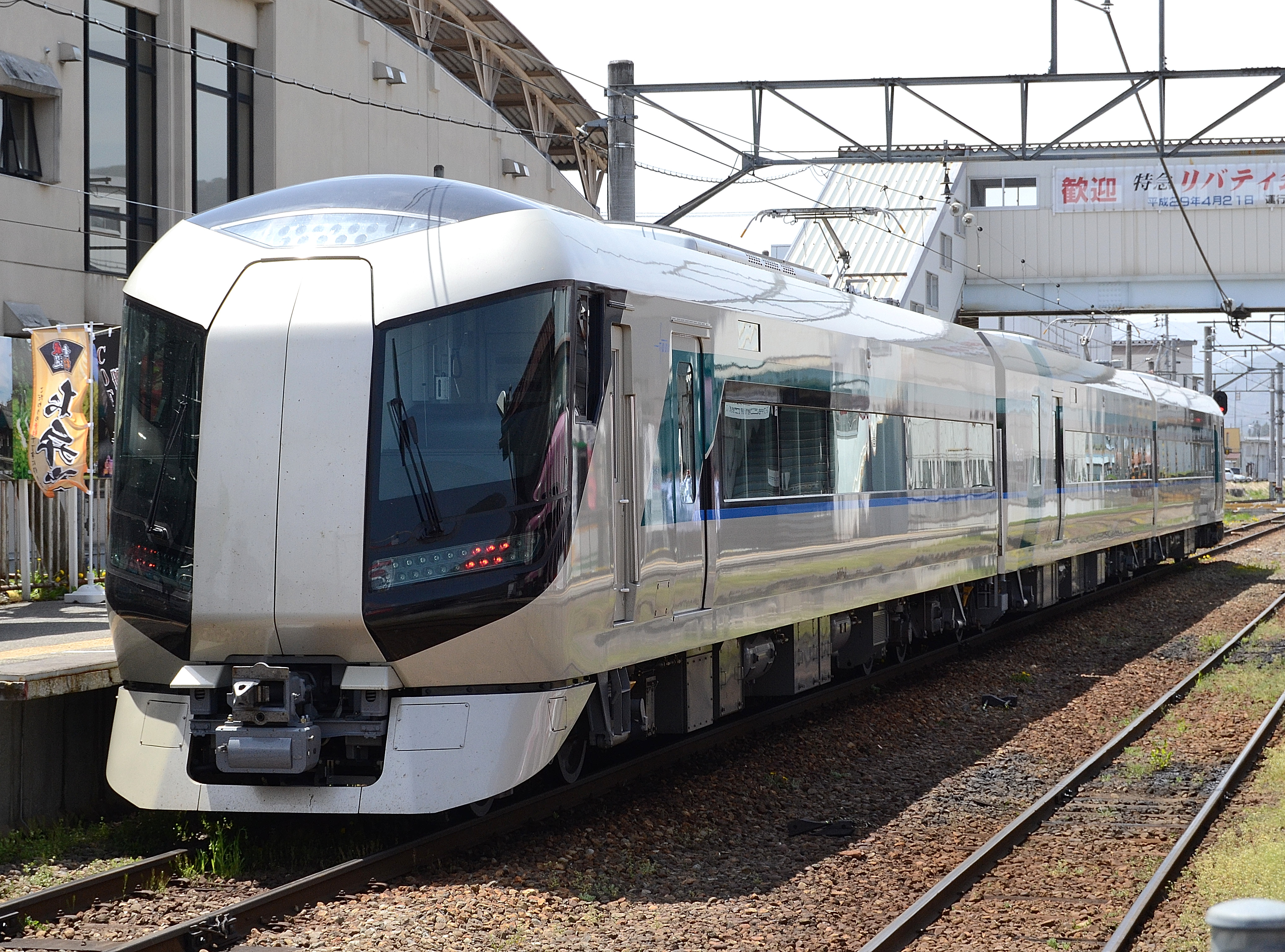 A Tobu 500 series EMU at Aizu-Tajima Station on a Revaty Aizu service